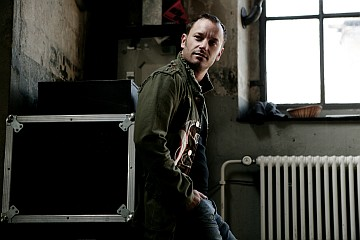 DJ Mind-X, Swiss DJ and producer.